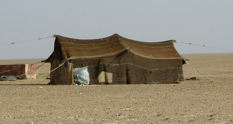 Photo of a Bedouin tent in Abu Kamal.